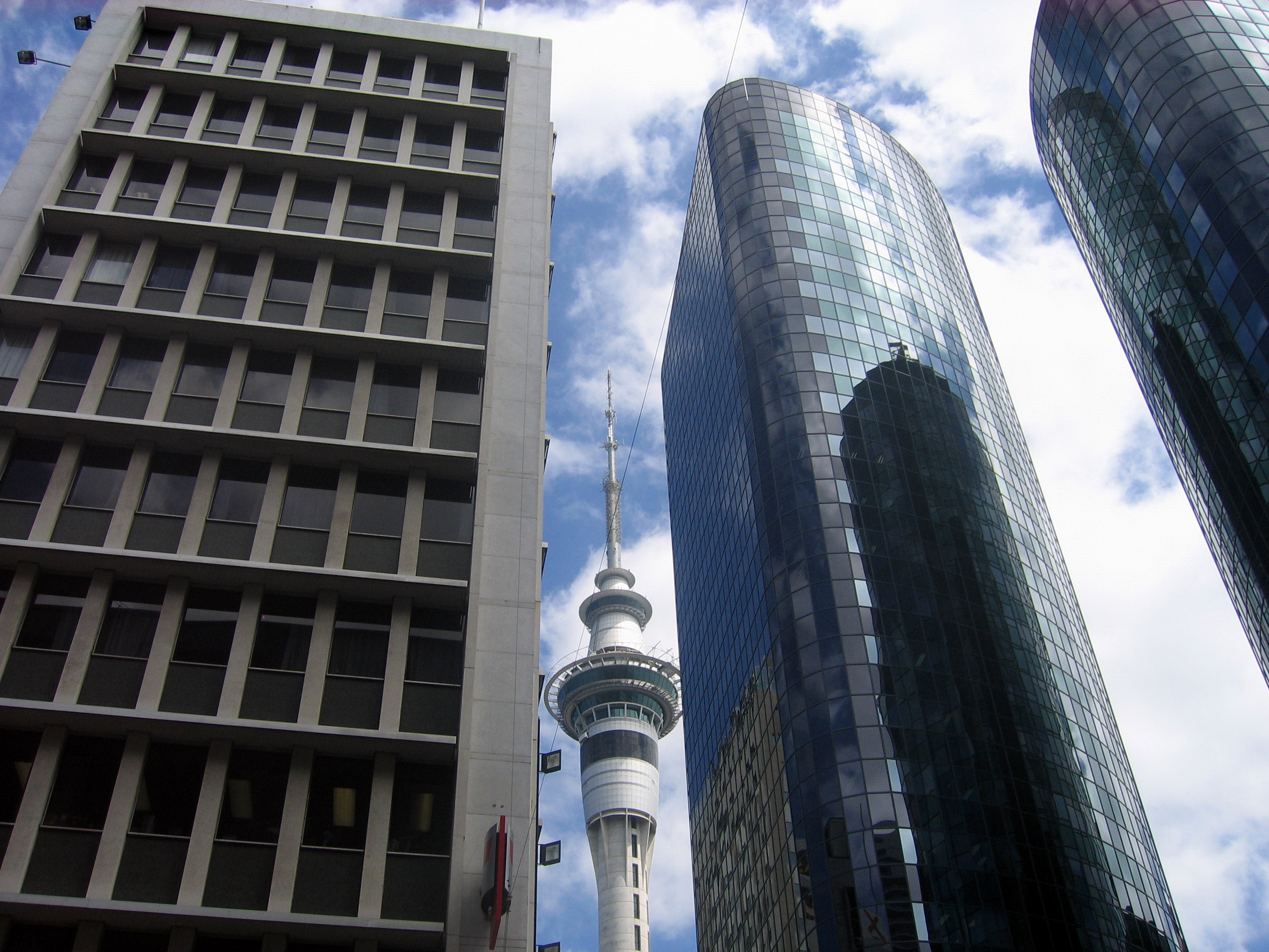 Auckland Skyline